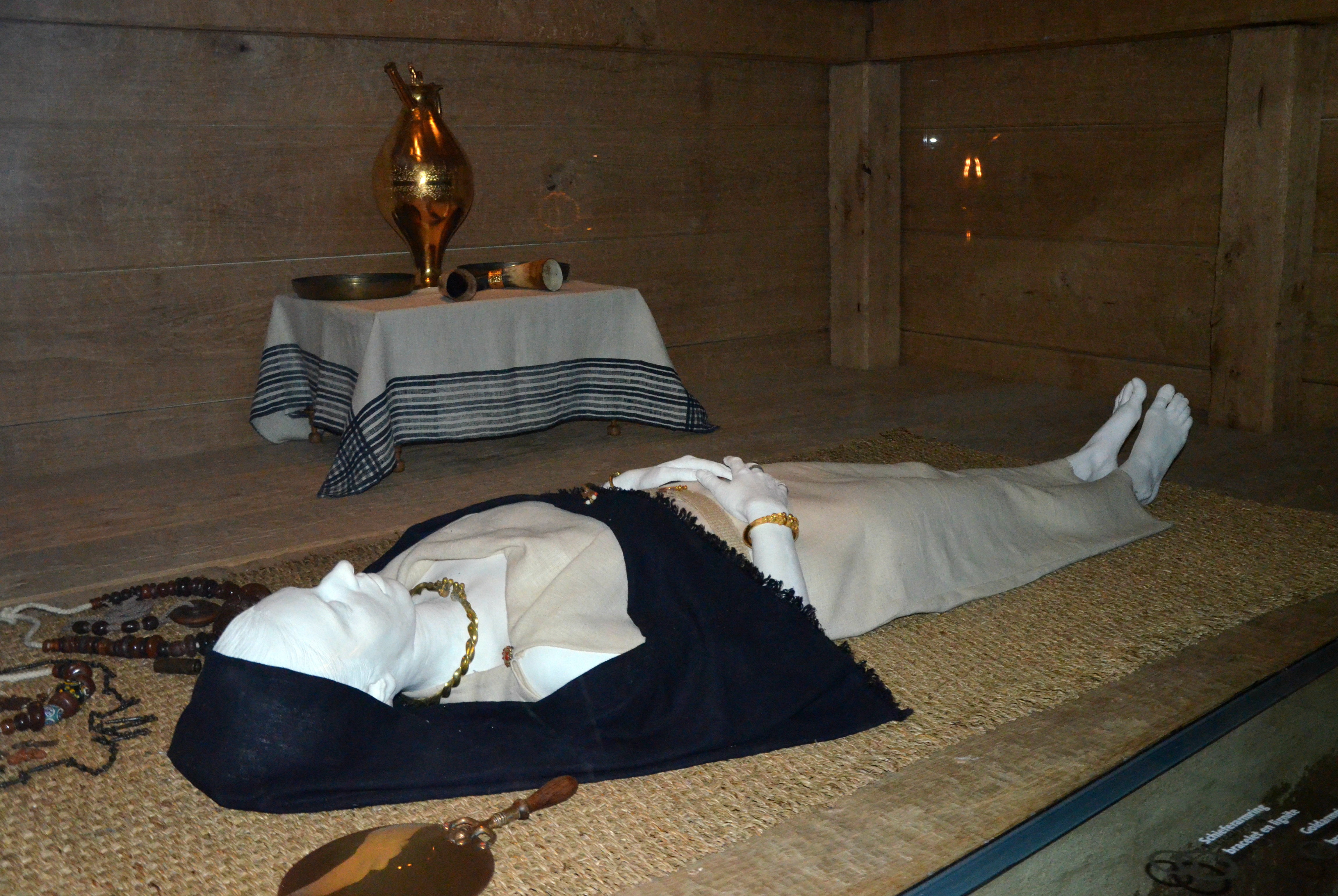 A recreation of the wooden funeral chamber of the 'Princess of Reinheim', Reconstructions of Celtic burial mounds, European Archaeological Park of Bliesbruck-Reinheim, Germany / France